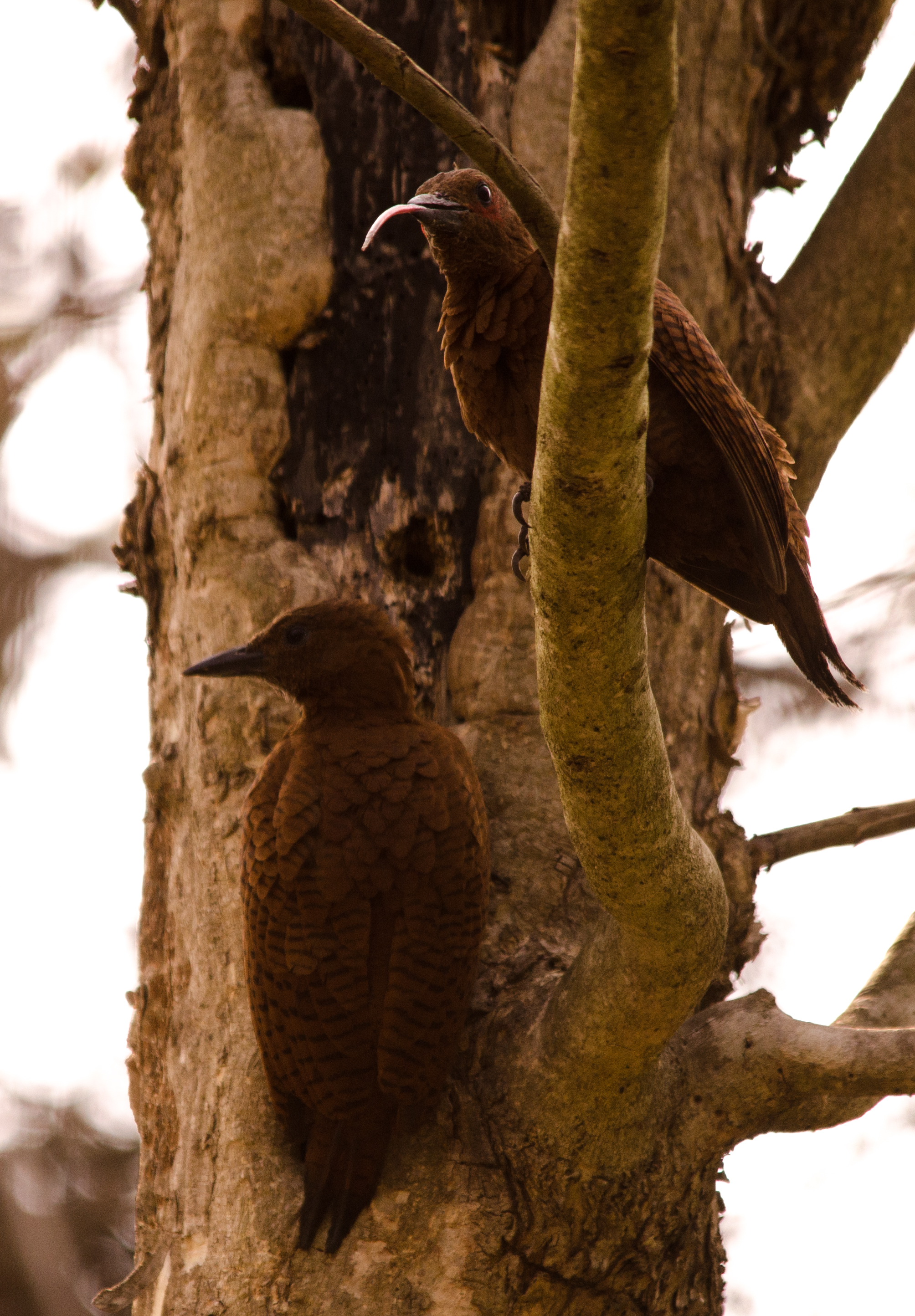 Micropternus brachyurus jerdonii, Dandeli, Karnataka, India